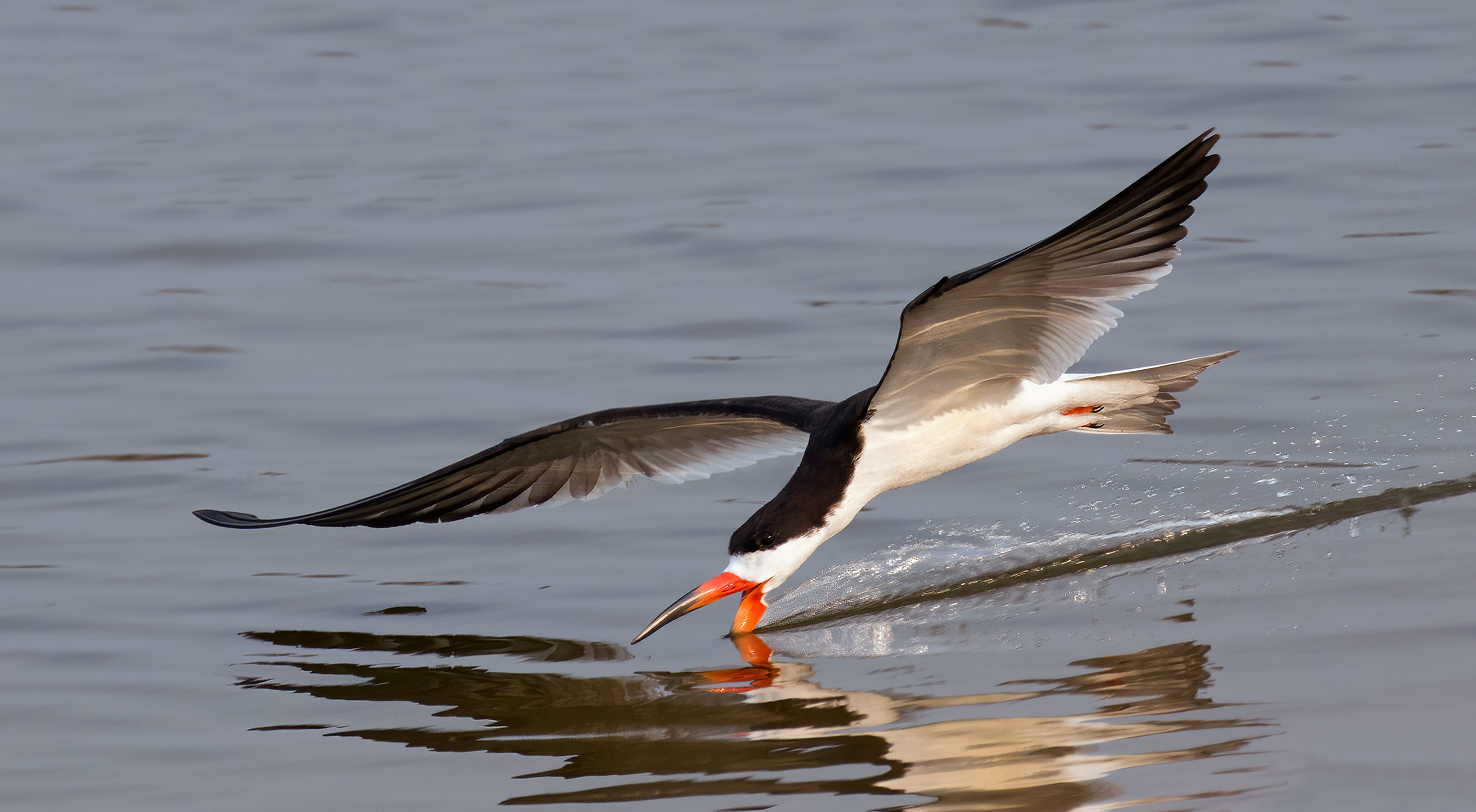 Black skimmer (Rynchops niger) in flight, skimming, Pantanal, Brazil